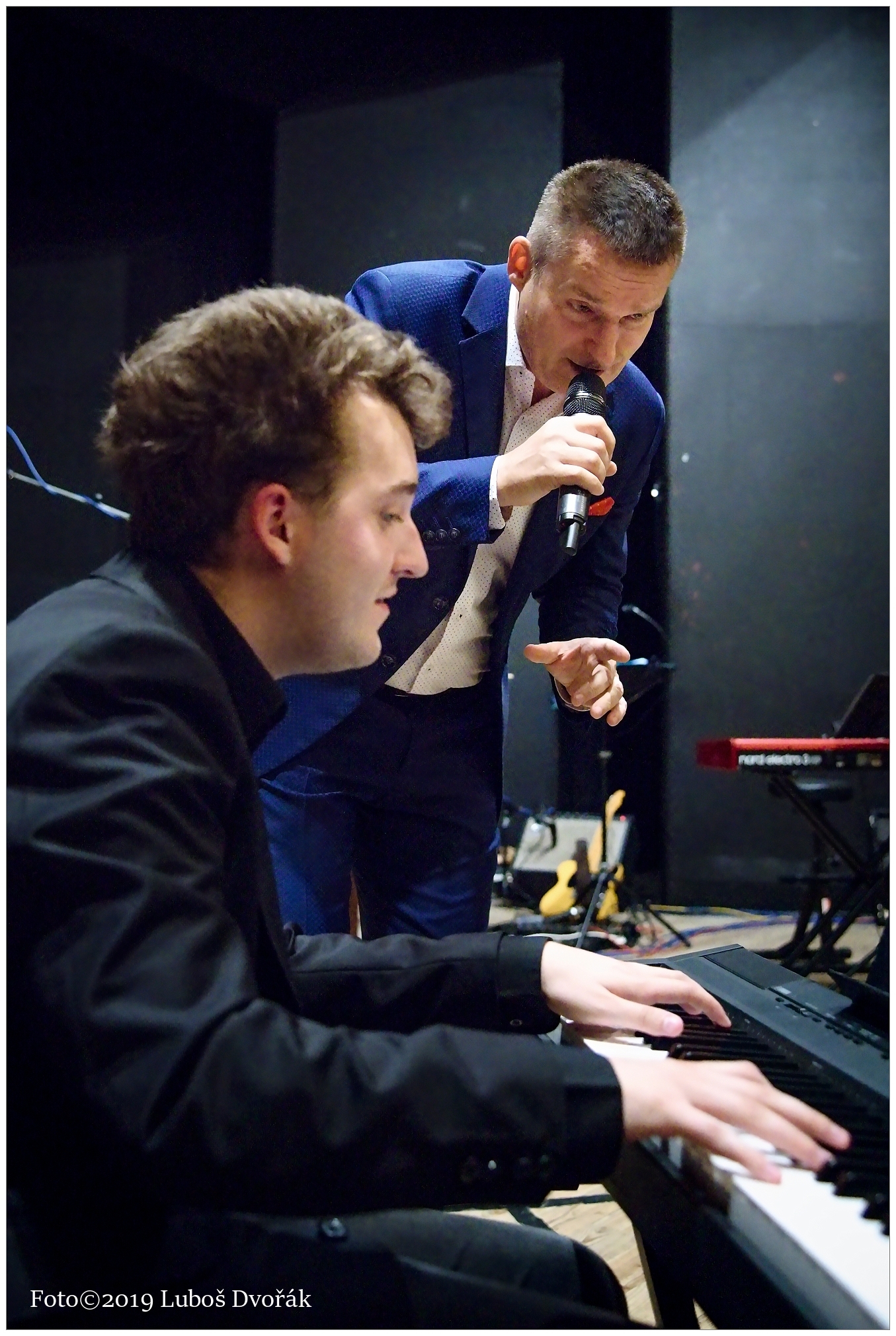 100 years anniversary of Most School